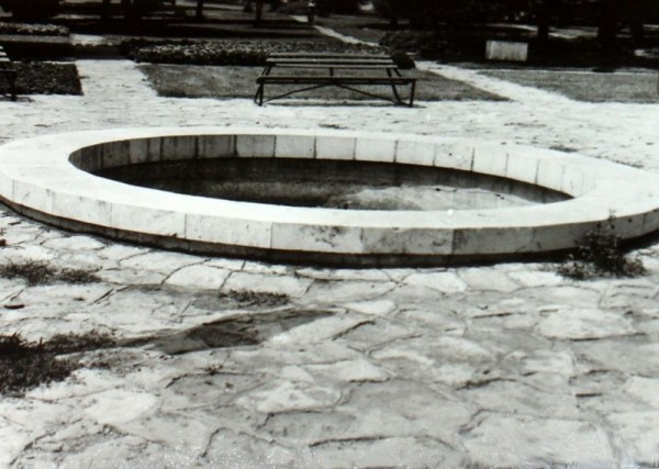 Reservoir is in winter, Budapest at Rác-fürdő